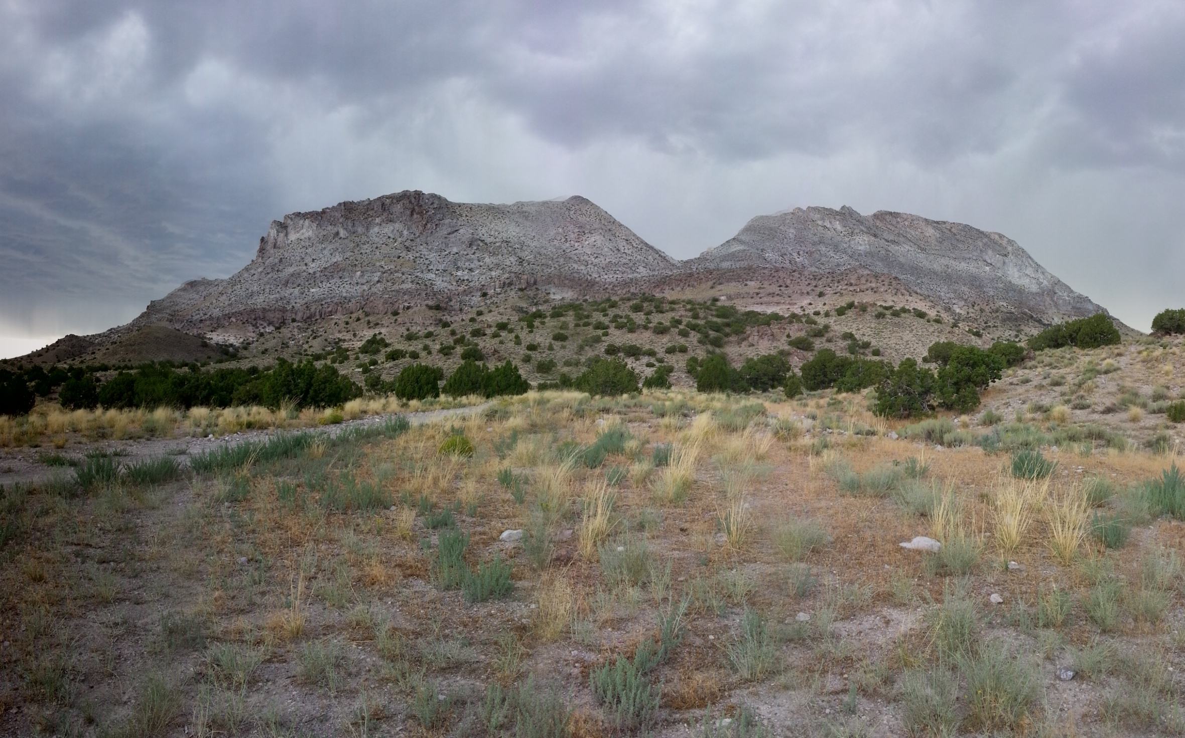 Panoramic view from the east side of the mountain. Storm rolling in behind the mountain.